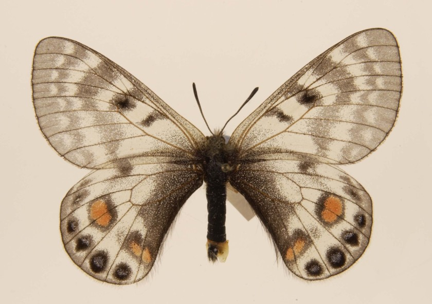 Parnassius stoliczkanus ssp atkinsoni Parnassius stoliczkanus (C & R Felder, 1864) ssp. atkinsoni Moore, 1902:121 pl.412 fig 2 as species of Koramius Female Ladakh Chalsi west Leh 4,800m. Juli Determined Robert Nash Curt Eisner following original labelling.